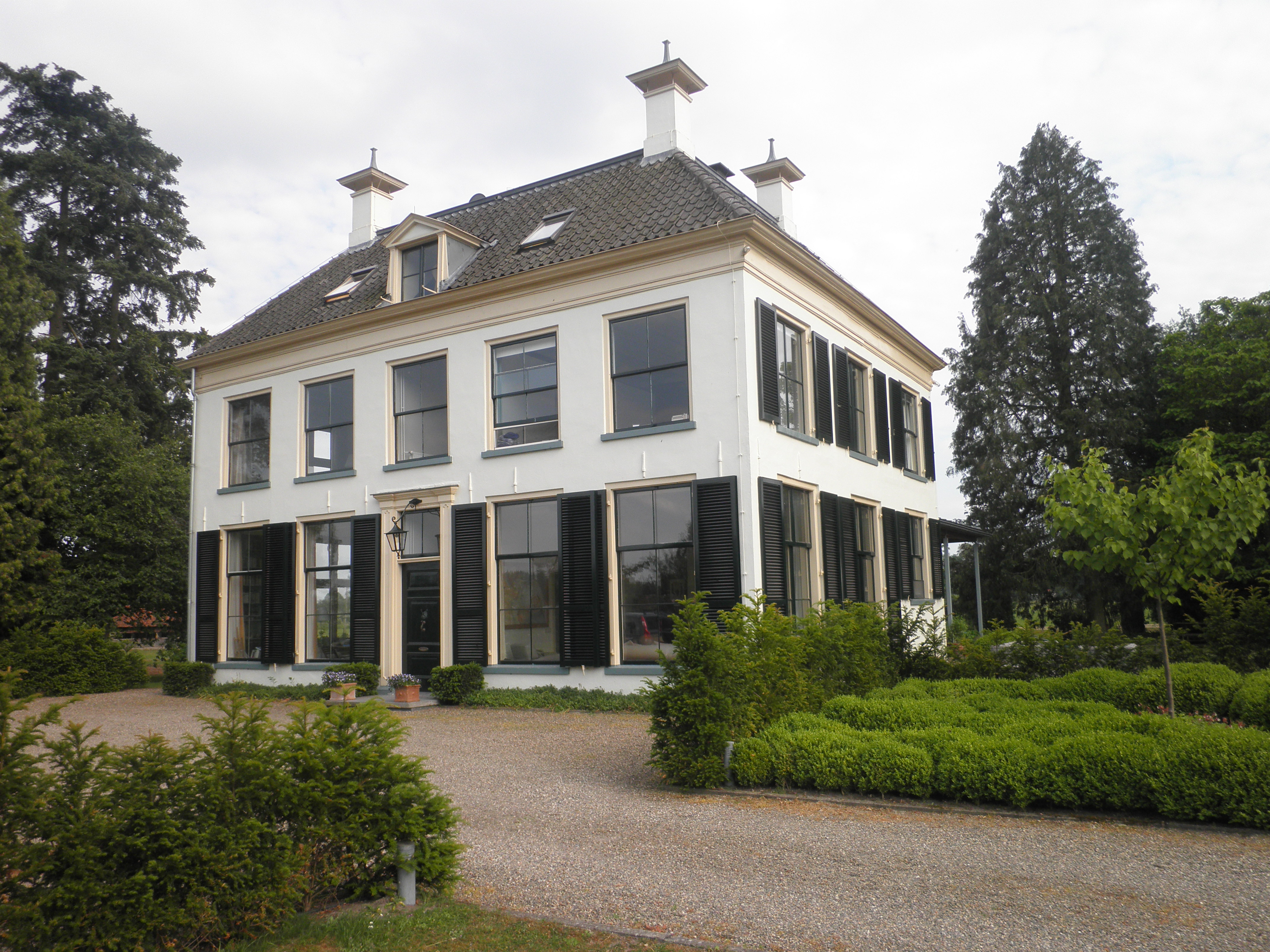 Het Overvelde: white stucco mansion near Diepenveen, the Netherlands, under hipped roof with corner stones. Empire style windows and 18th century door frame. Nationally listed heritage.